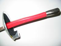 Self-created picture of a French grip foil handle